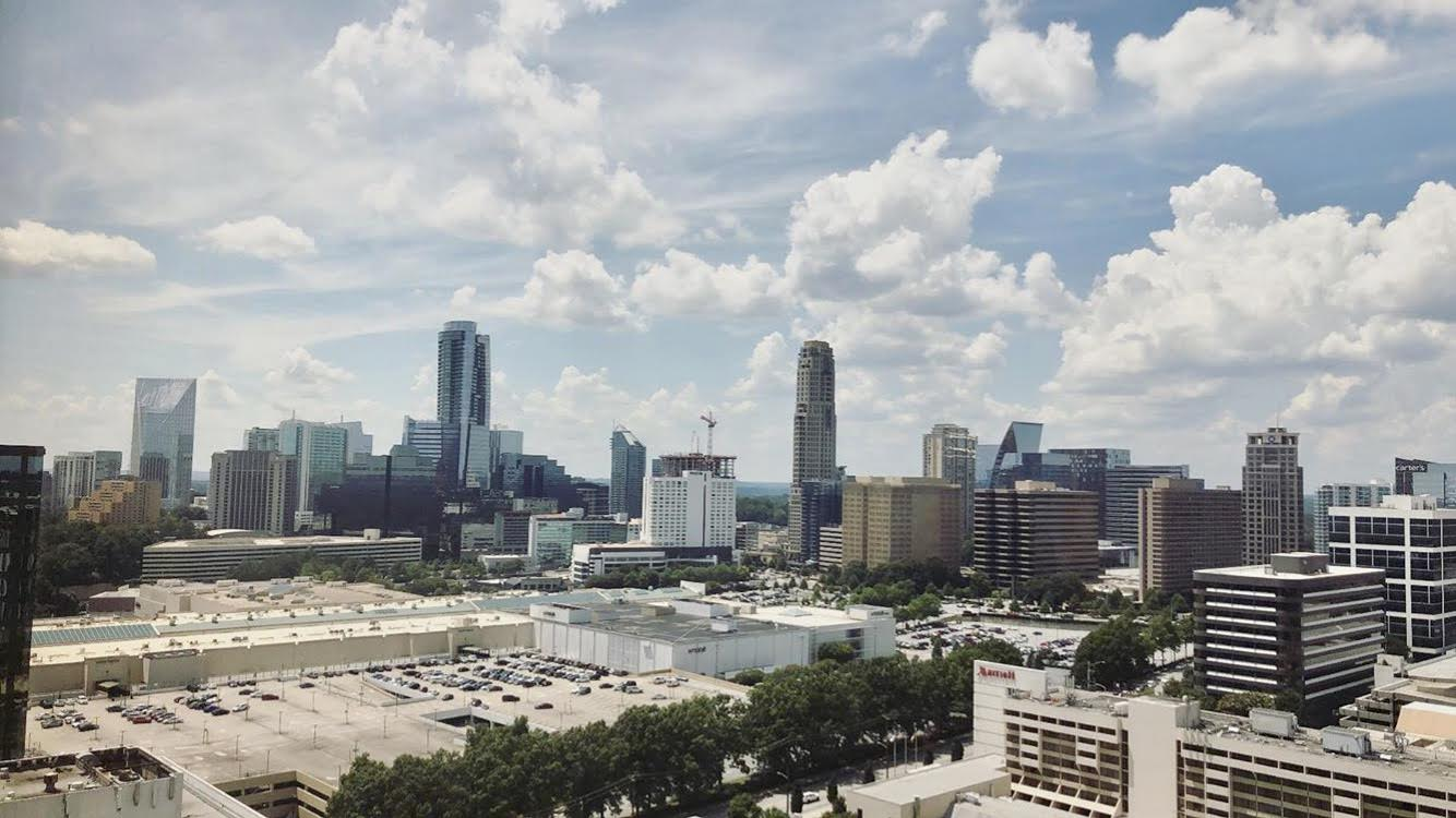 Buckhead Skyline looking North West